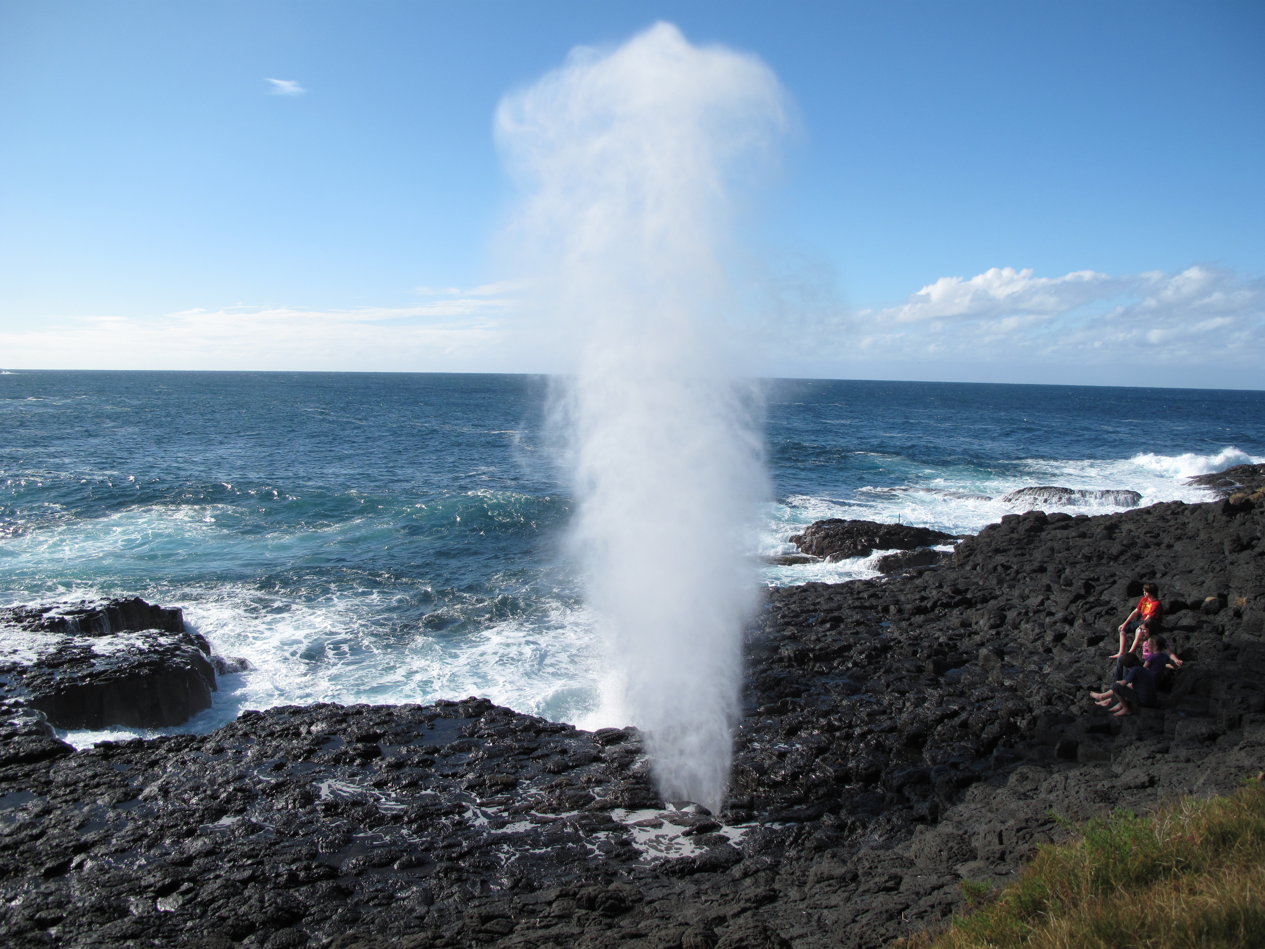 Little Blowhole, Kiama - 1